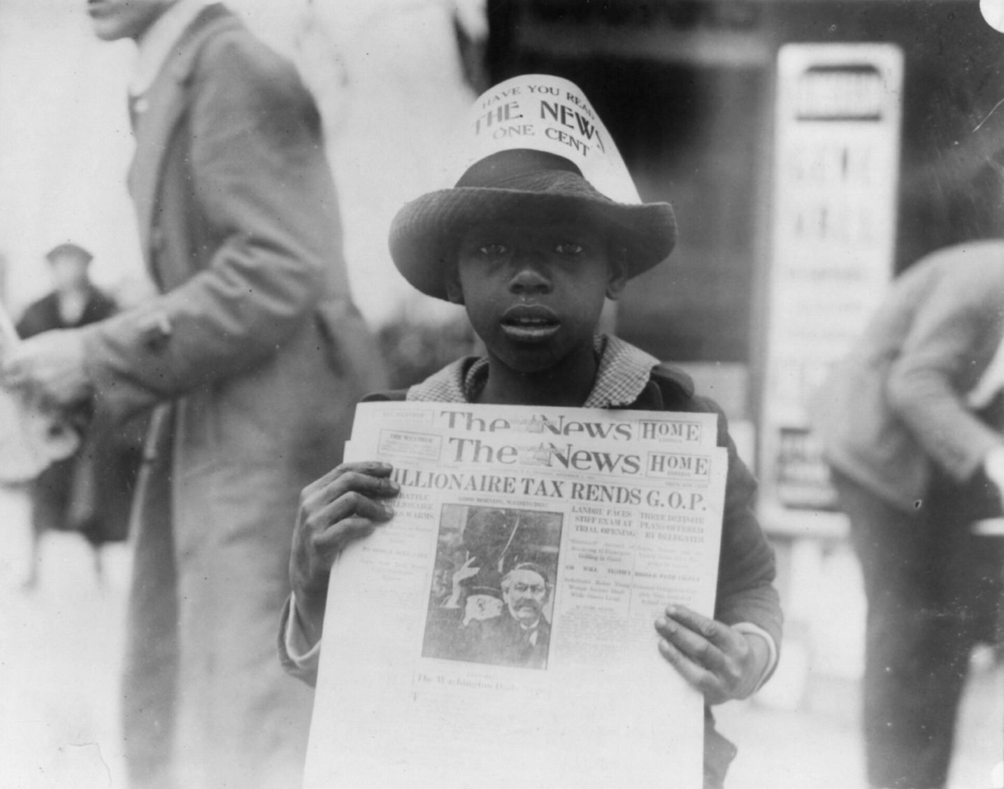 African American boy selling The Washington Daily News - sign on his hat reads, "Have you read The News? One cent" - headline reads "Millionaire tax rends G.O.P."